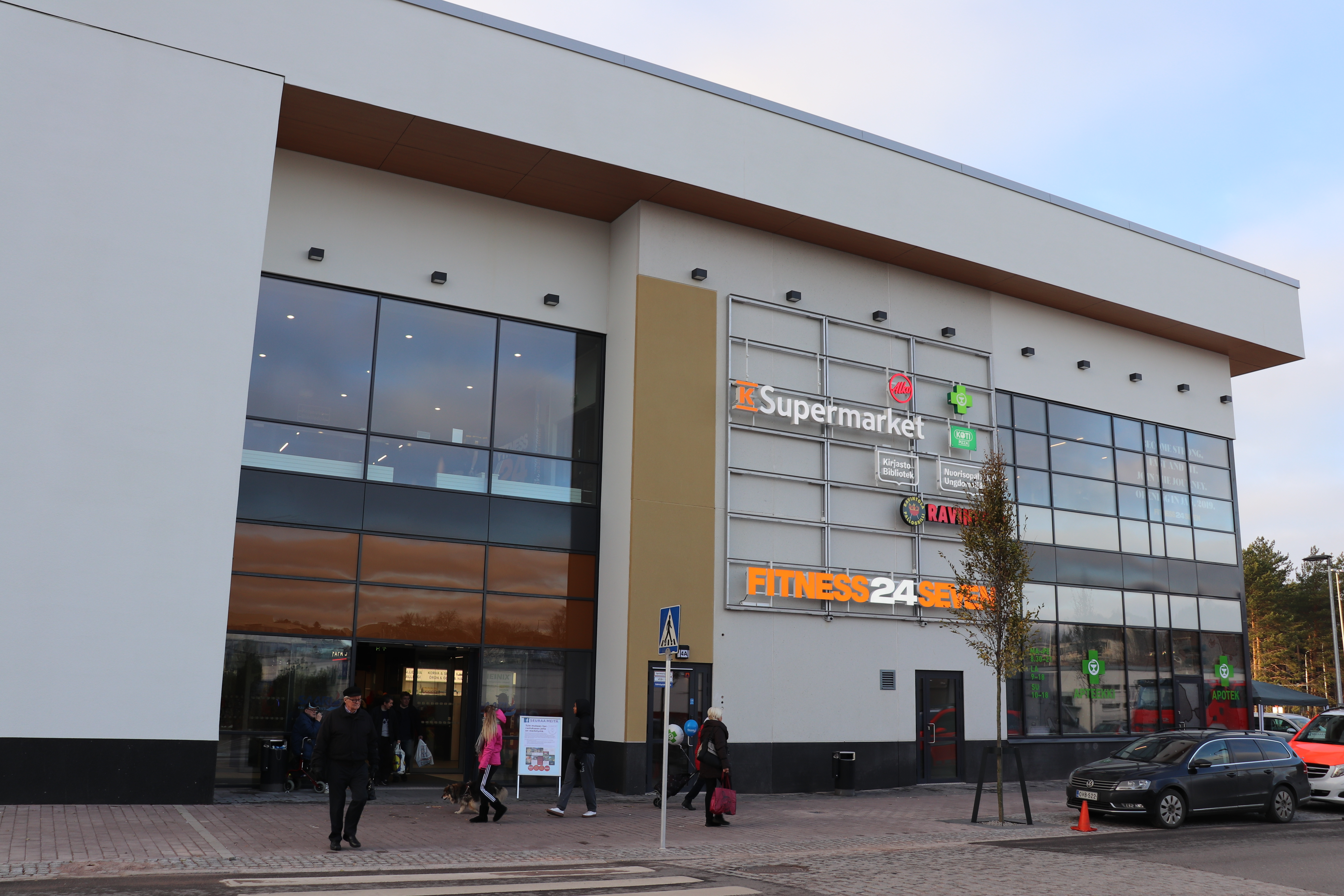 Exterior of the shopping center Saari in Helsinki on its' opening day.